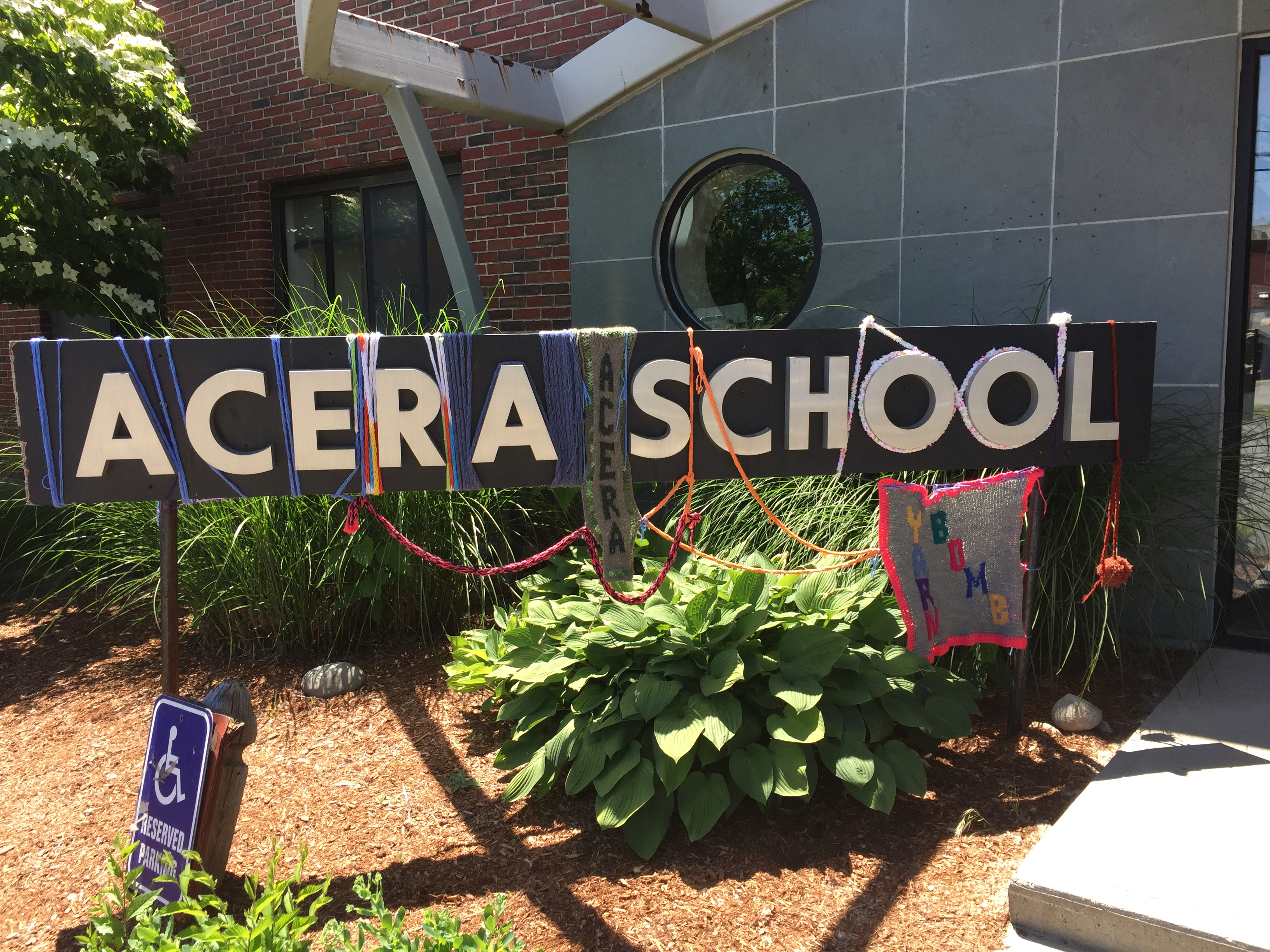 Acera sign after kids yarn bombed it